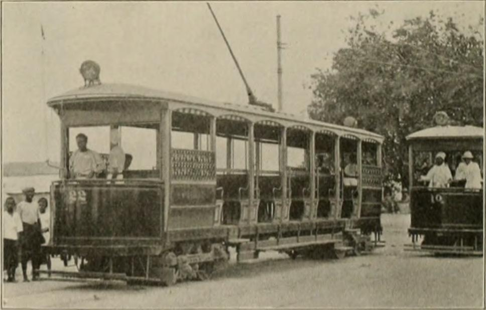 «Type of car used in Mandalay» (original caption) Title: The street railway review Year: 1891 (1890s) Authors: American Street Railway Association Street Railway Accountants' Association of America American Railway, Mechanical, and Electrical Association Subjects: Street-railroads Publisher: Chicago : Street Railway Review Pub. Co